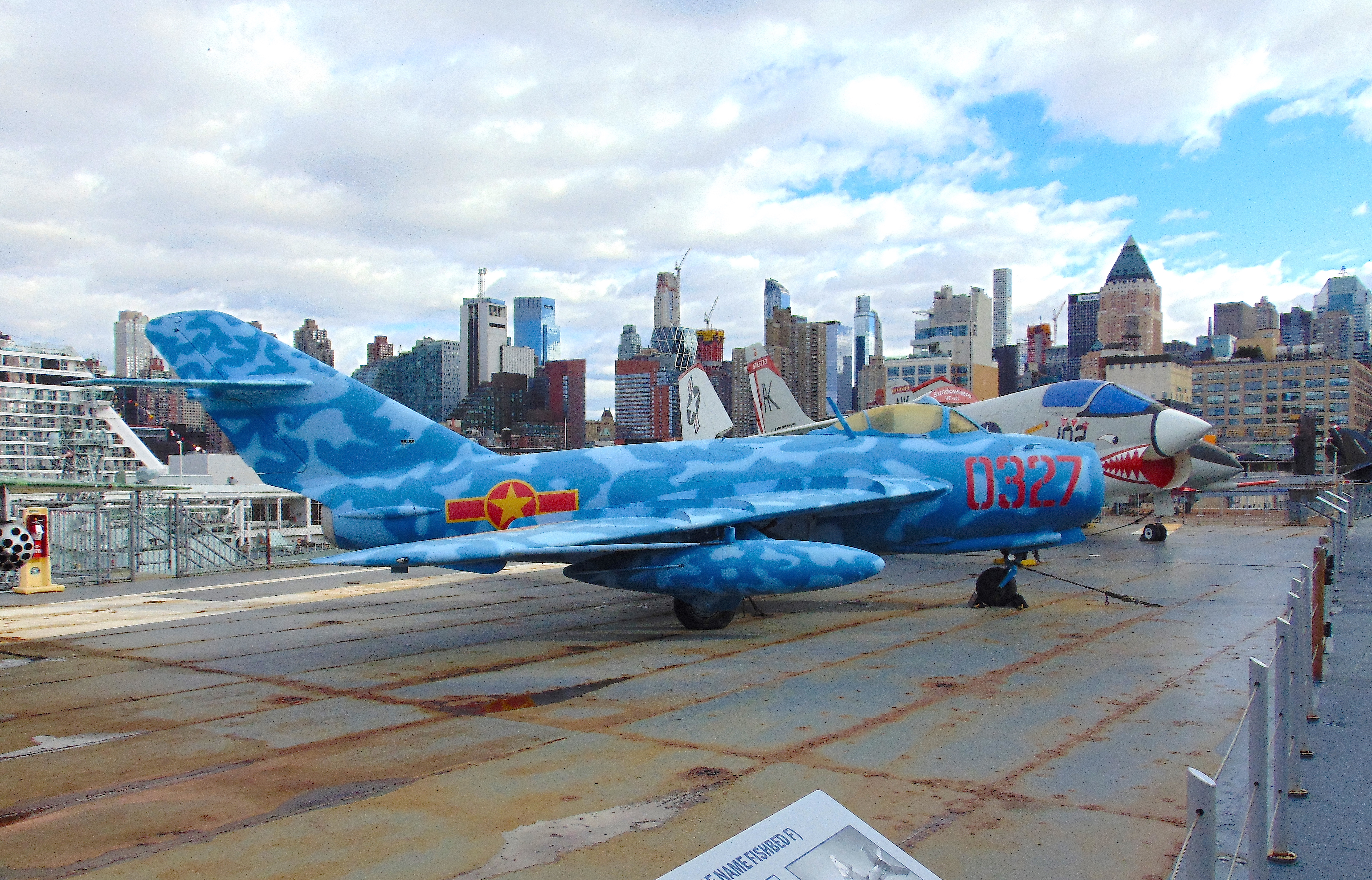 MiG 17 of the VPAF, Intrepid Sea, Air and Space museum